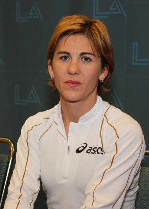 Nuta Olaru of Romania on panel at press conference for LA Marathon 2009. (cropped from File:Nuta Olaru and Tariku Jufar.jpg)